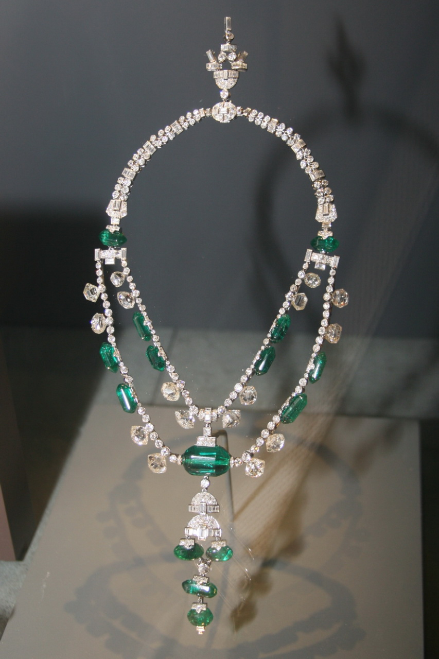 The upper half of the necklace consists of many small diamonds threaded onto a silver chain. The lower half of the necklace is divided into two concentric semi-circular strands, each carrying eight pairs of "football-shaped" diamonds and four pairs of barrel-cut emeralds, arranged symmetrically. The centre of the lower strand holds a large emerald supporting a pendant which itself holds five smaller emeralds. The point where the upper and lower halves of the necklace join is marked by two large emeralds threaded onto the chain. Altogether, there are 15 emeralds and 374 diamonds in the necklace. The name Spanish Inquisition Necklace was given by Harry Winston. The necklace has no connection to the Spanish Inquisition whatsoever. front view